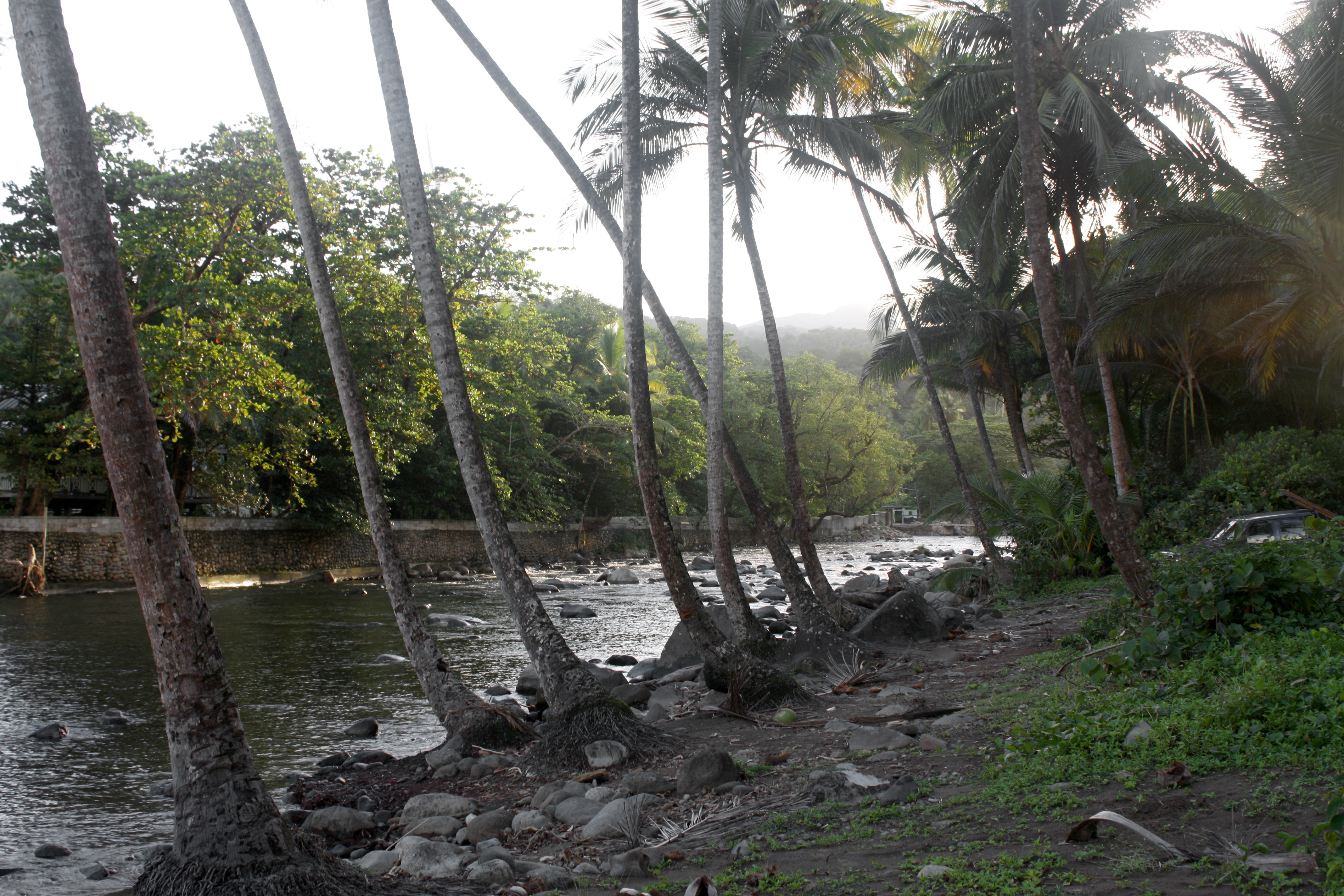 The Rosalie River near its outlet, looking inland (west). Rosalie, Dominica